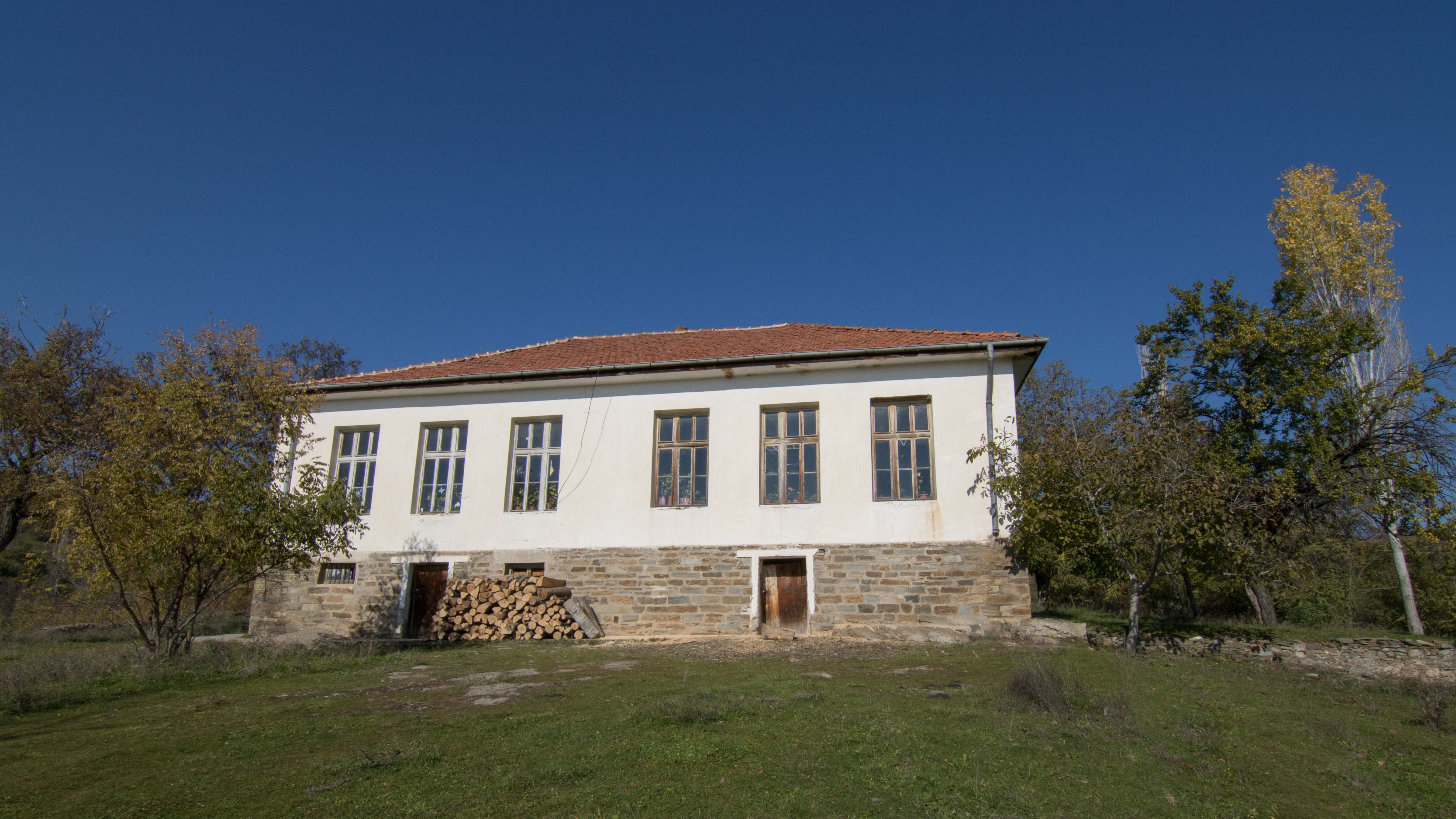 Primary school in the village Radibuš